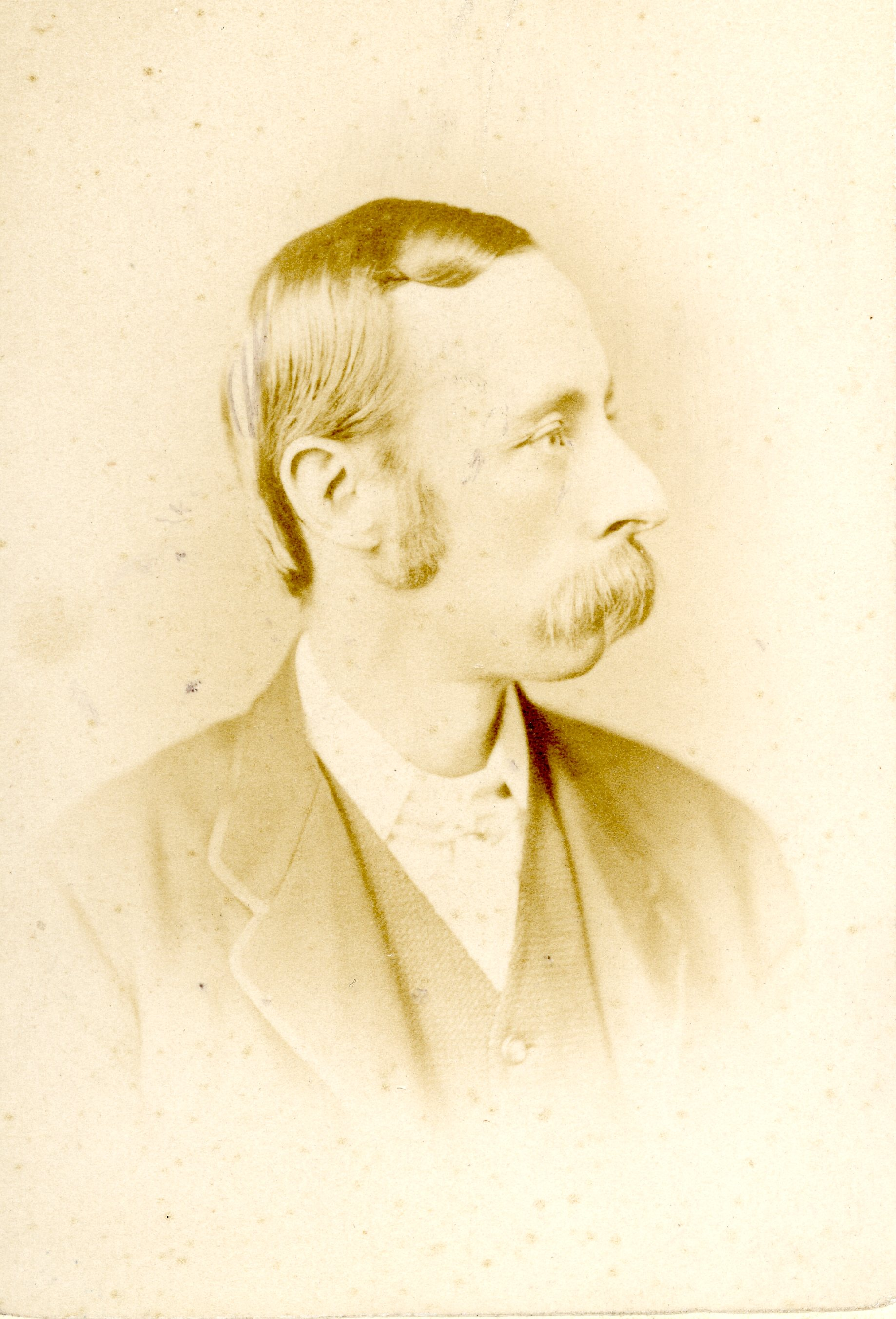 Arthur Coke Burnell